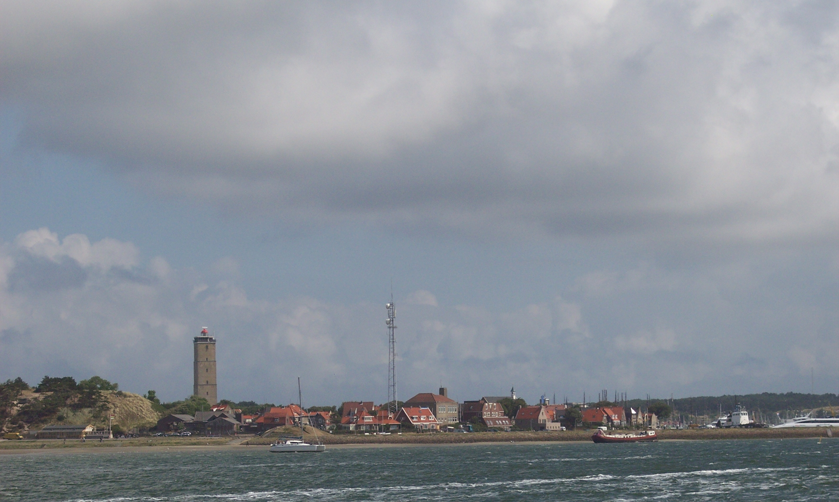 View of West-Terschelling, Netherlands, with Brandaris lighthouse